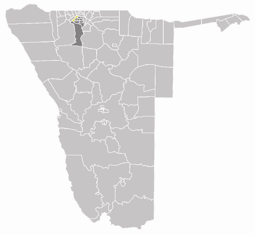 map of the Okatana constituency within the Oshana region, Namibia